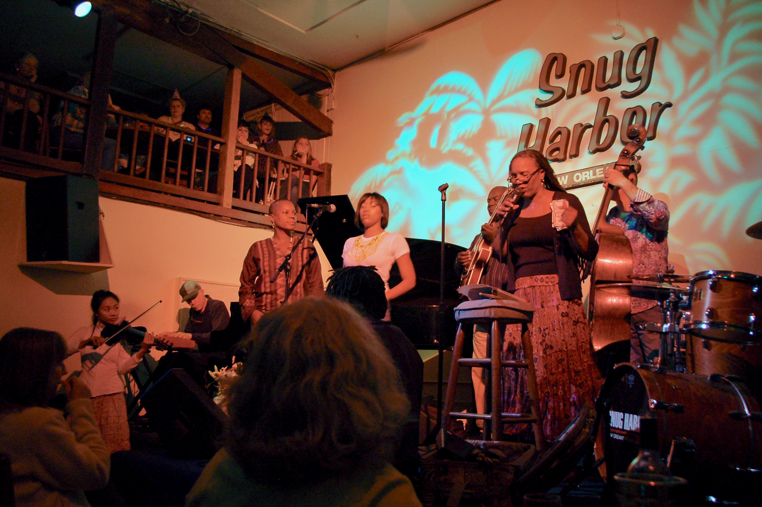 New Orleans: it was Charmaine Neville's birthday at the Snug Harbor .